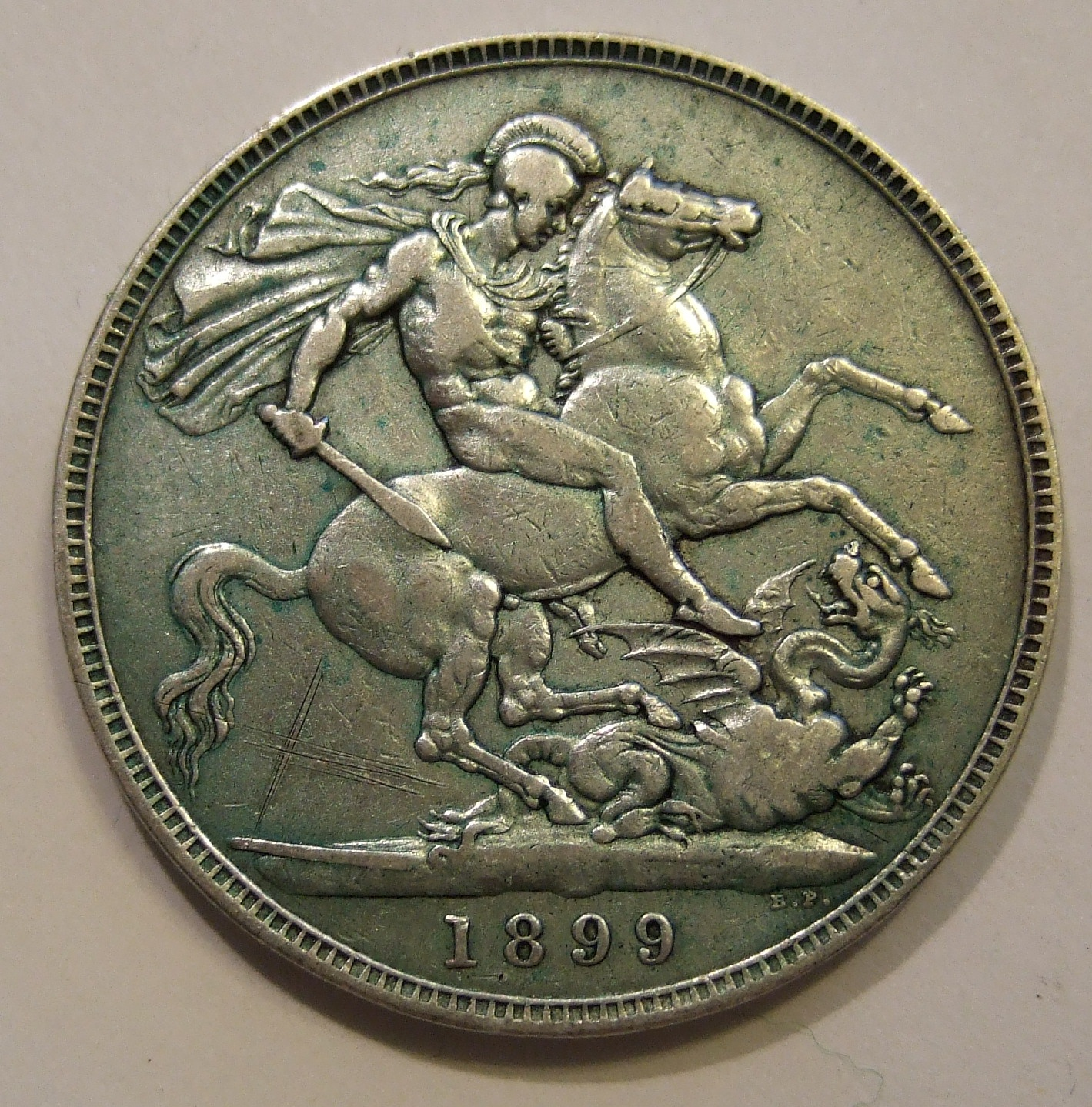 British coin